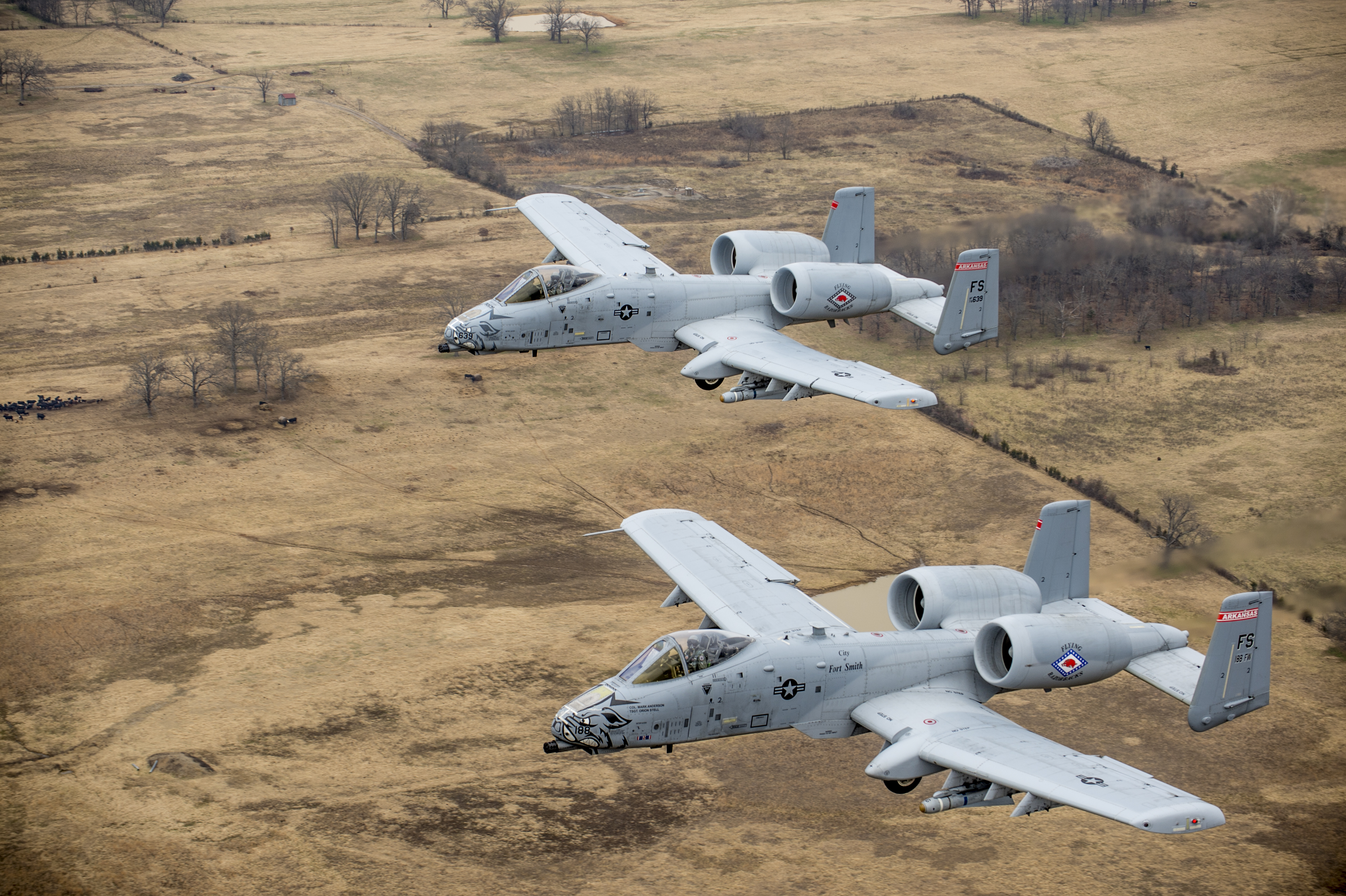 Col. Mark Anderson (Tail No. 188), 188th Fighter Wing commander, and Maj. Doug Davis (Tail No. 639), 188th Detachment 1 commander, conduct a training mission Dec. 30, 2013, over Razorback Range, located at Fort Chaffee Maneuver Training Center, Ark. The photos were captured from a 189th Airlift Wing C-130 Hercules. The sortie was one of the last four-ship training missions that will be conducted at the 188th. The wing is currently transitioning from a fighter mission to an Intelligence, Surveillance and Reconnaissance/remotely piloted aircraft (MQ-9 Reaper) mission that will also feature a space-focused targeting squadron. The 188th has divested two A-10C Thunderbolt II “Warthogs” per month since September 2013. The last Warthog is slated to leave the 188th in June 2014. The 188th has flown A-10s since April 2007 and has had assigned aircraft on site since 1953. June will mark the first time in unit’s 60-year history that no assigned military aircraft will be parked on the flightline at Ebbing Air National Guard Base, Fort Smith, Ark. (U.S. Air Force photo by Senior Airman Matthew Bruch) Unit: 188th Wing DVIDS Tags: Air National Guard; Formation; A-10; Warthog; Arkansas; Fort Smith; Fort Chaffee; 184th Fighter Squadron; Aviation News; 188th Figther Wing; Razorback Range